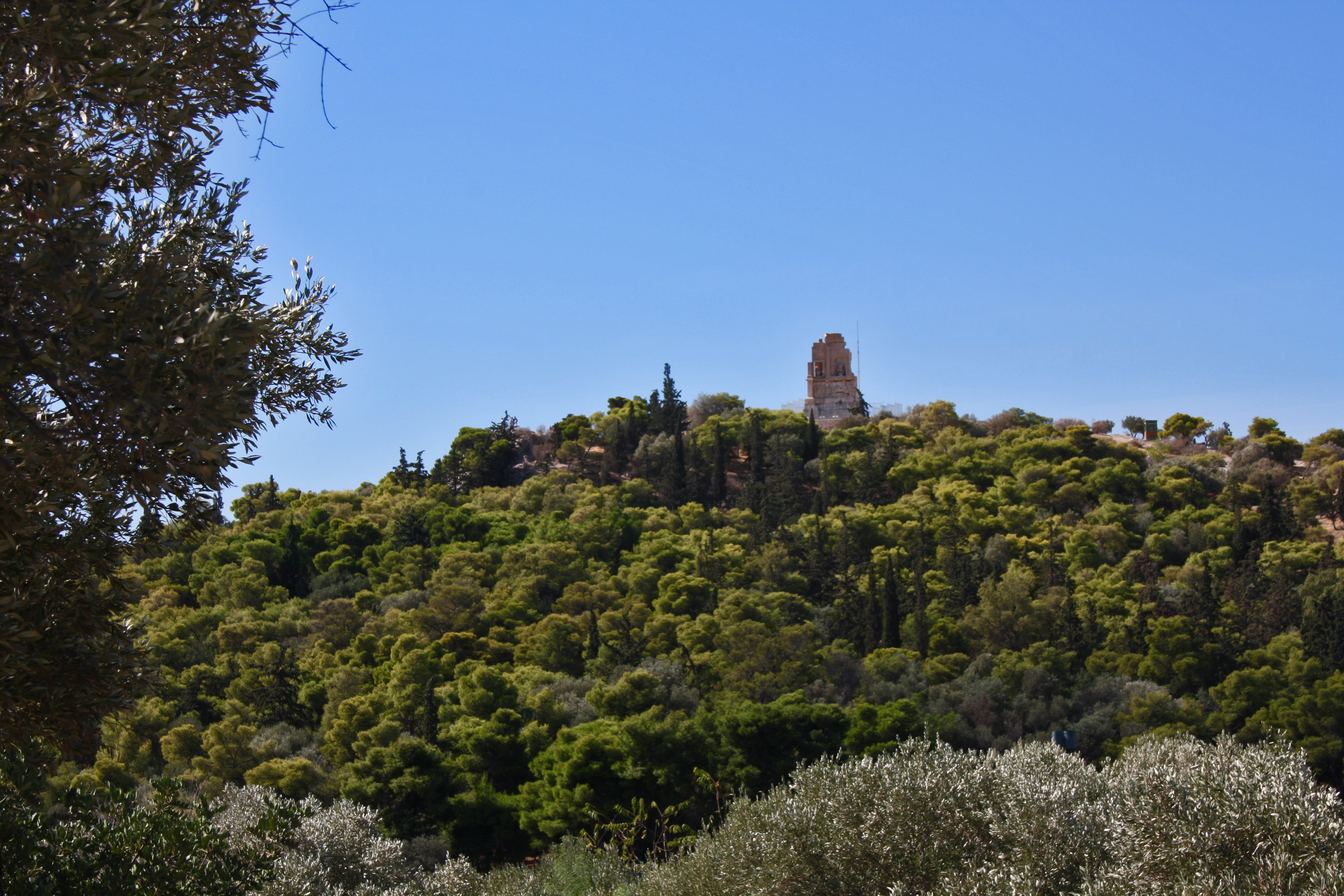 Athens 09 2013